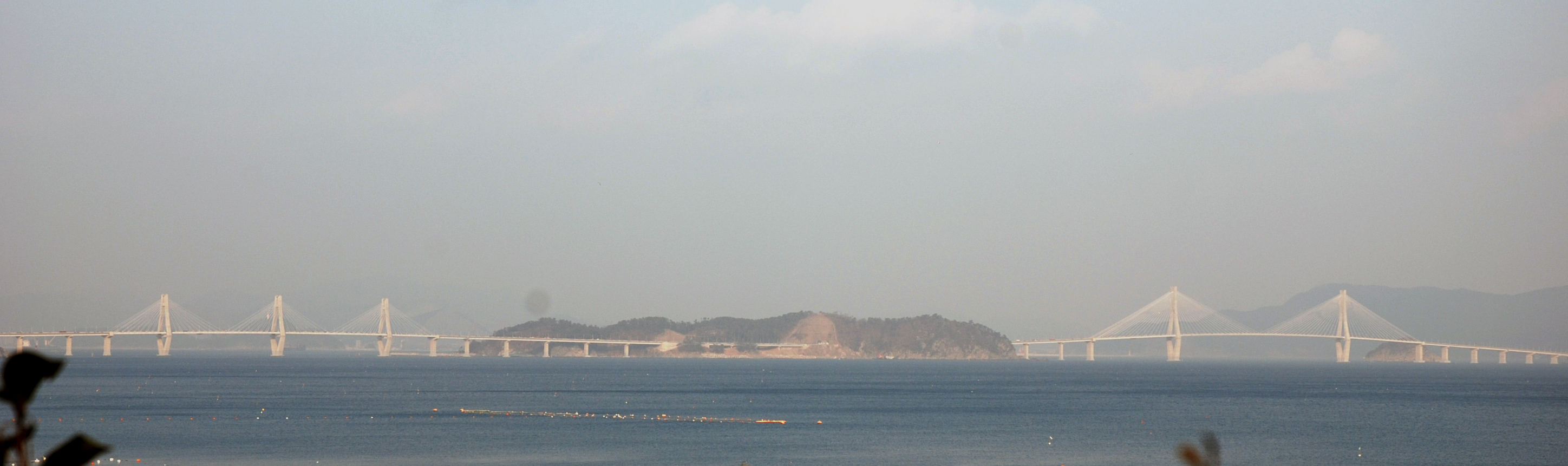 Goega Bridge Panorama connecting Goeje Island and Busan City